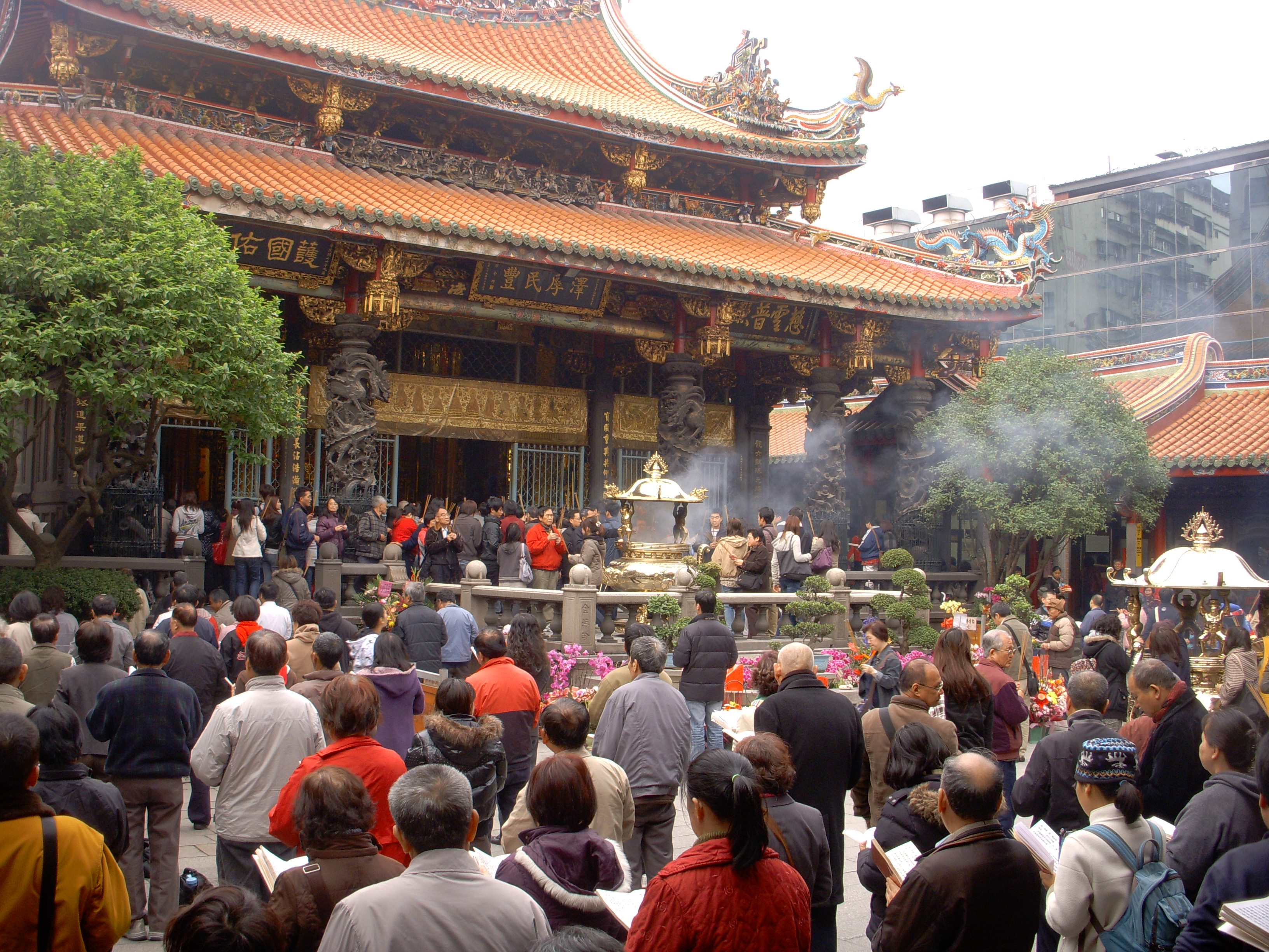 Longshan Temple, Taipei City